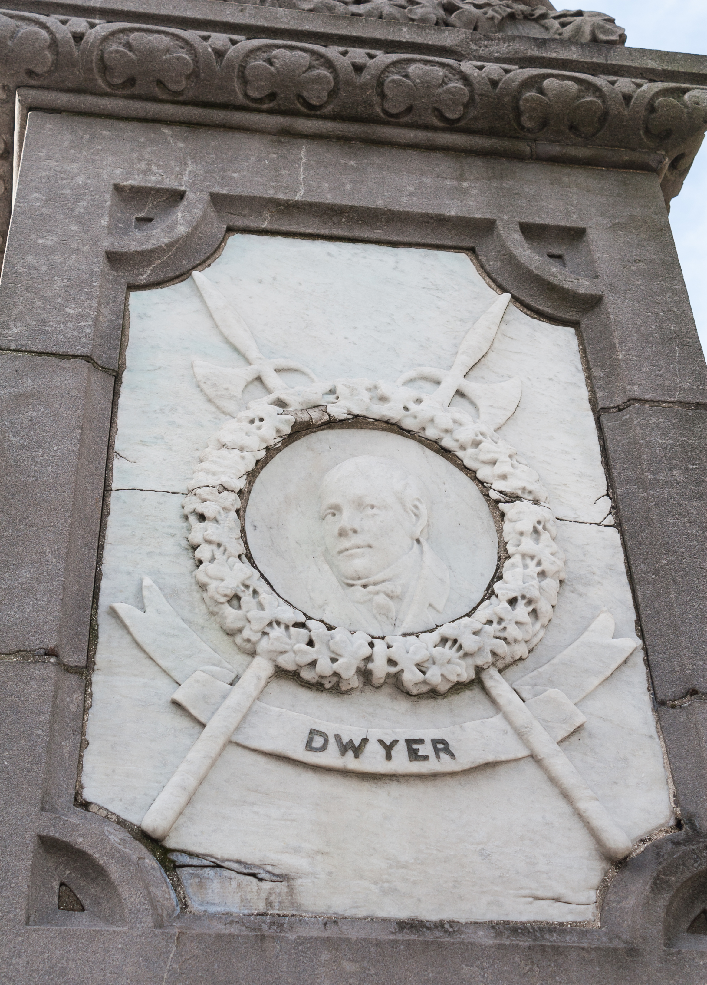 Relief panel for Michael Dwyer, United Irishmen in the 1798 rebellion, at the east face of the plinth.